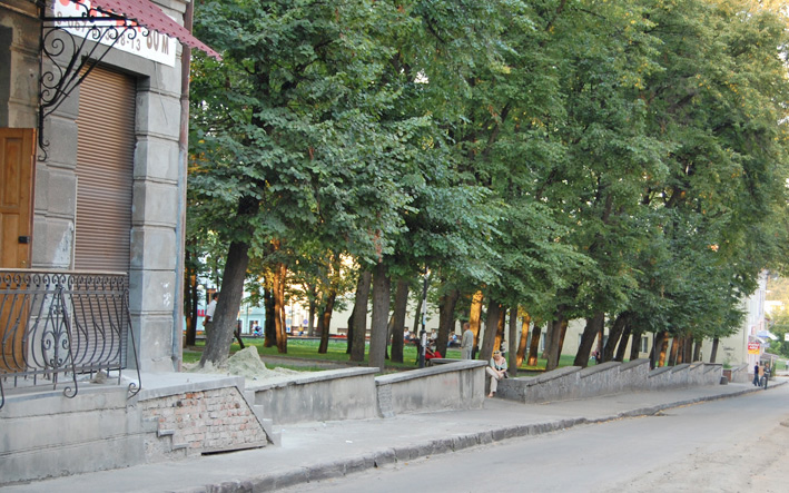 Bruno Schulz's place of death